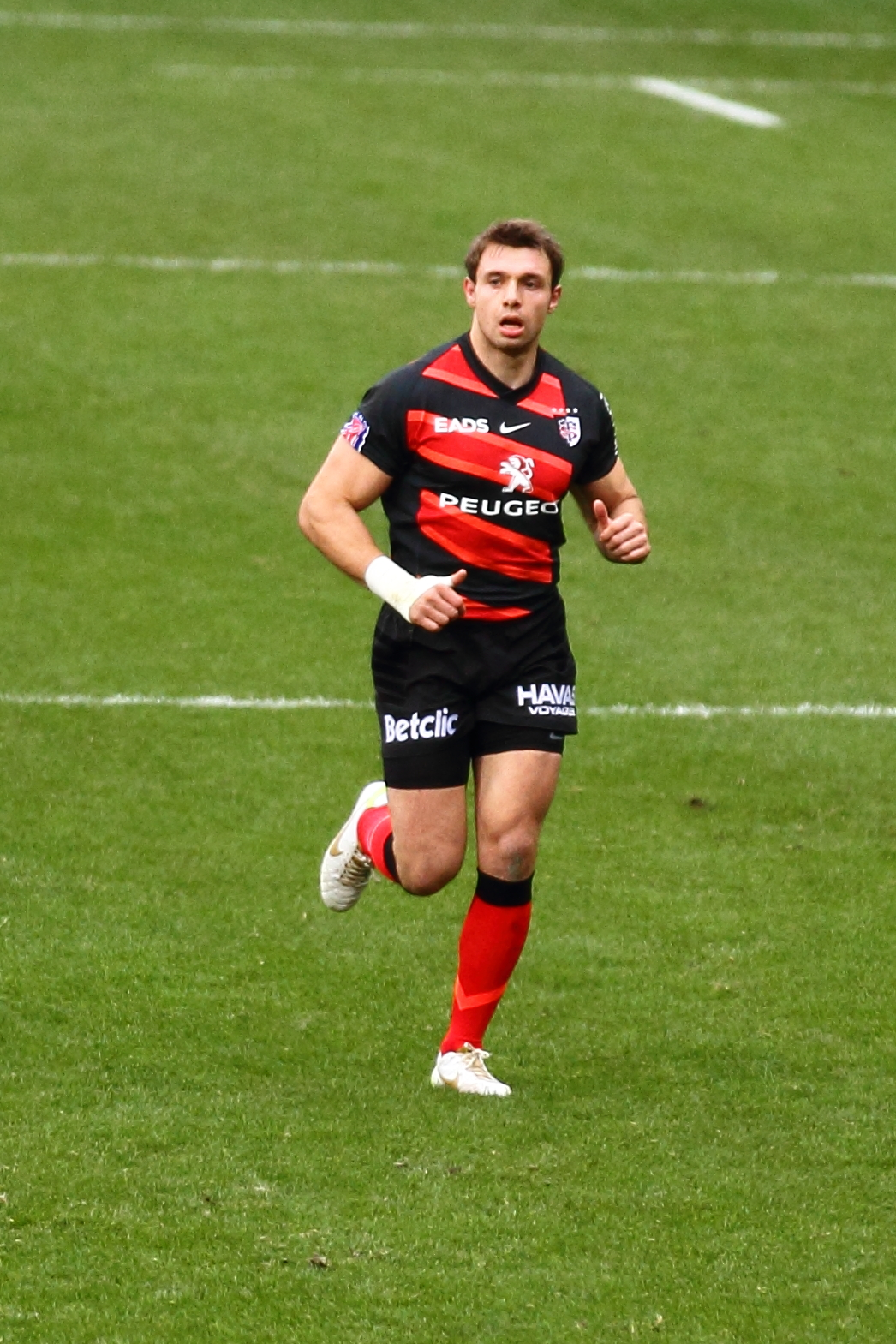 Top 14 — 3 December 2011, Stadium. Match between: Stade toulousain — RC Toulon